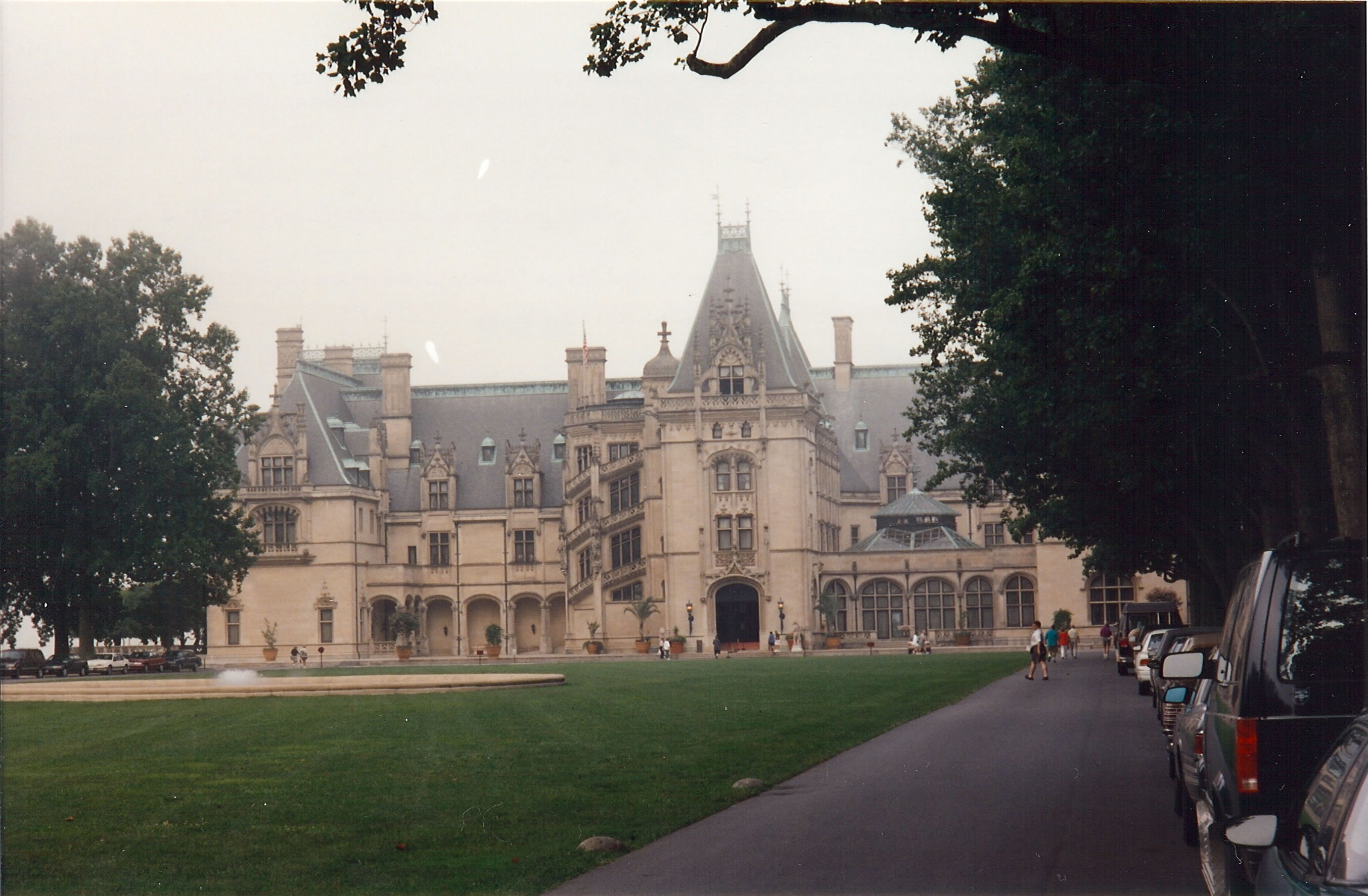 Source Taken by User:Tomf688 in August of 1996.